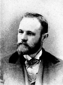 Portrait of New York assemblyman Thomas J. McManus